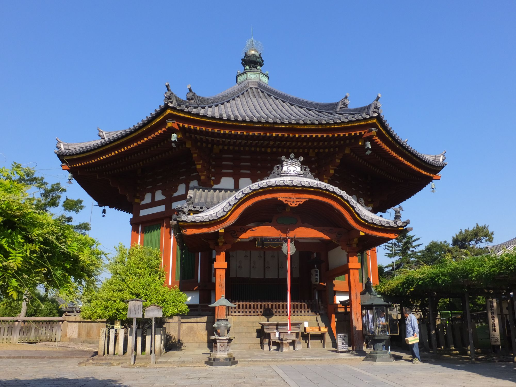 Nan'endō (South Octagonal Hall) of Kōfuku-ji temple in Nara, Nara prefecture